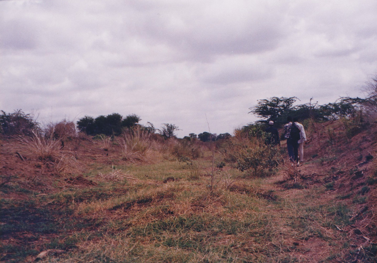 Supply Canal Bura Irrigation Project. This picture was taken North of Nanighi, after the El Nino rains of 1997-1998. The floods destroyed a huge dyke and the irrigation supply canal was destroyed. It took years before it was repaired.